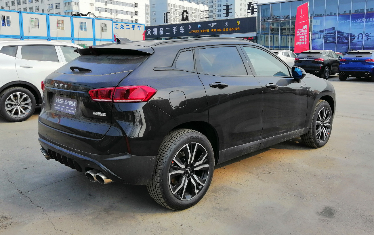 WEY P8 photographed in Hefei, Anhui province, China.